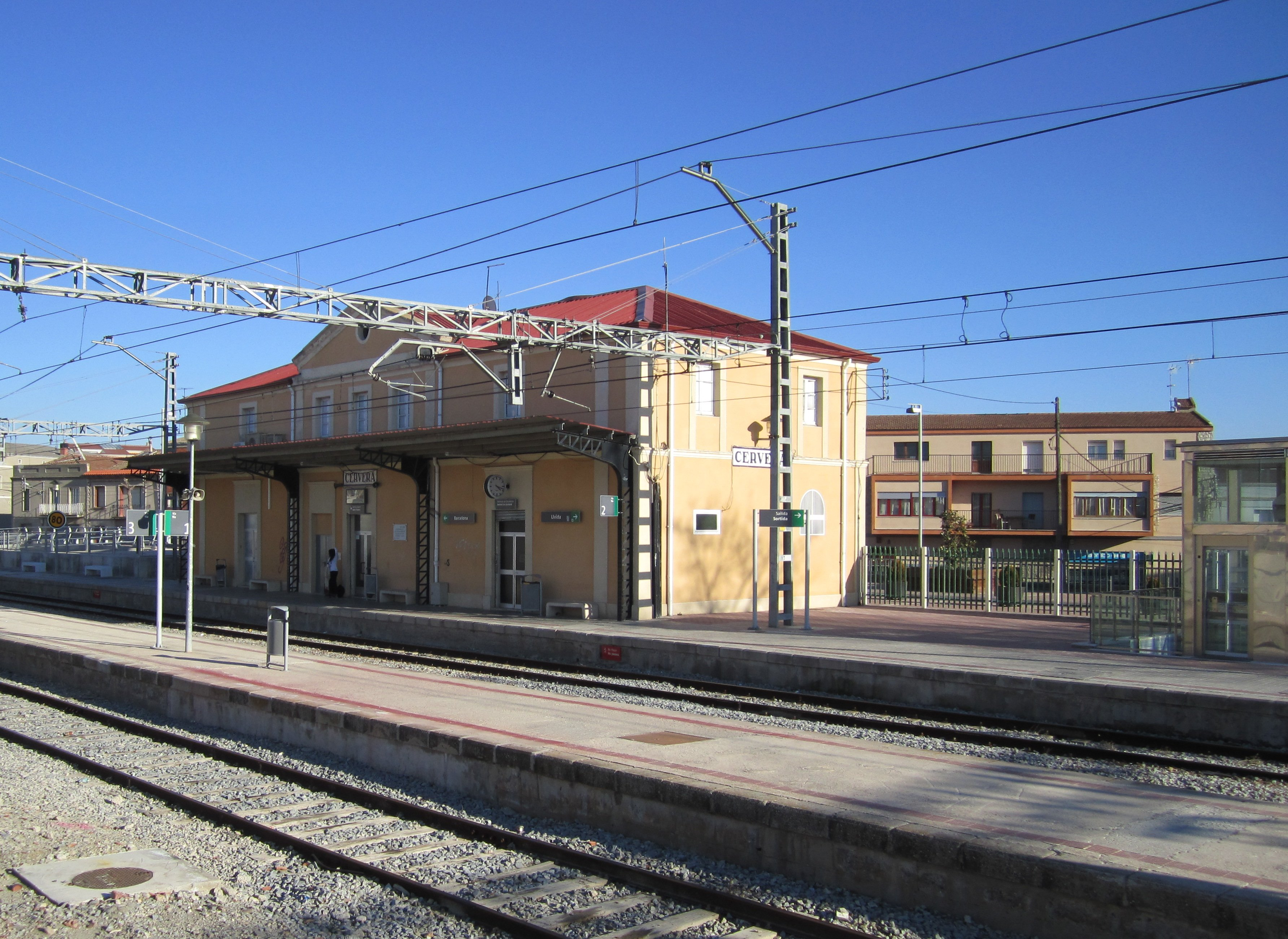 Train station of Cervera, in Catalonia